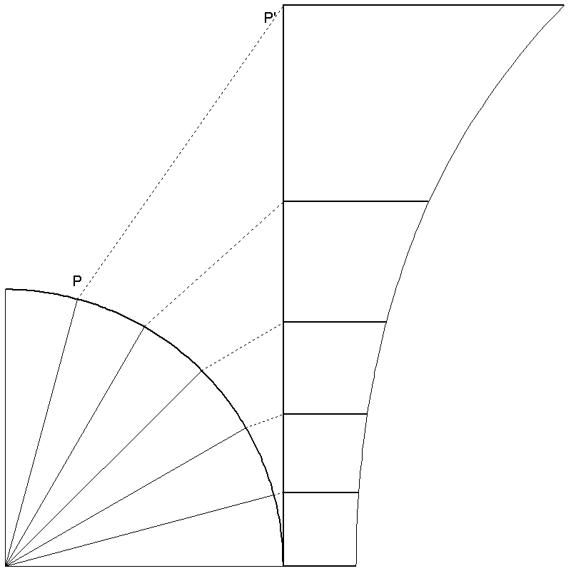 Meridional parts